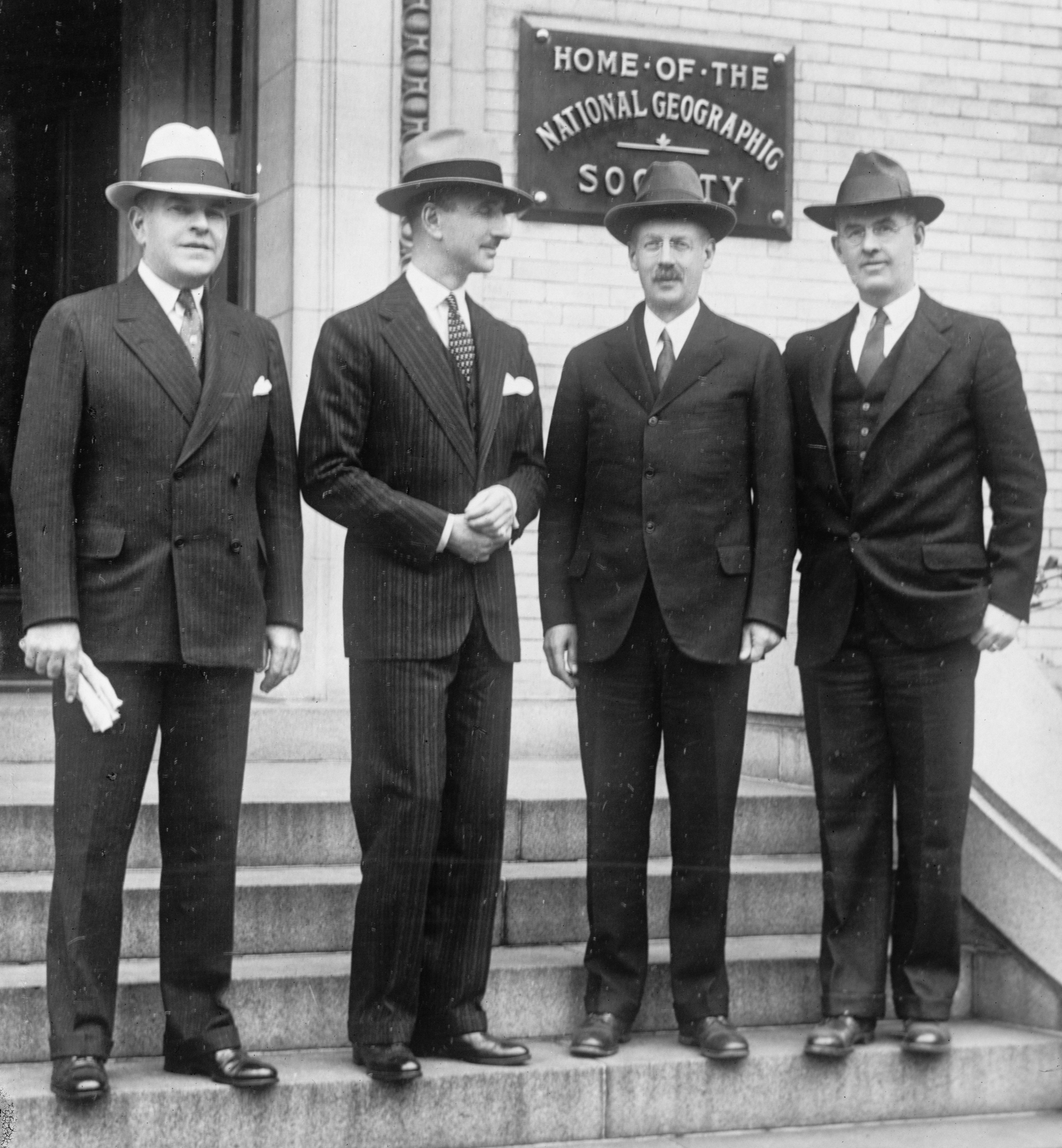 "Planning motor car expedition across Asia. Georges-Marie Haardt of Paris will head a scientific party which will start shortly on an expedition which will cover 13,500 miles in Asia, including previously unexplored sections. The expedition will travel in special caterpillar-drive equipped motor cars. Haardt came to Washington to complete arrangements for the National Geographic Society to participate in the project. In the photograph, left to right: Dr. John Oliver La Gorce [1880-1949], vice president of the Society; Haardt [1884-1932]; Dr. Gilbert Grosvenor [1875-1966], president of the Society, and Maynard Owen Williams [1888-1963], the Society's correspondent who will accompany the expedition, 12/3/30."About this expedition, see Croisière jaune.